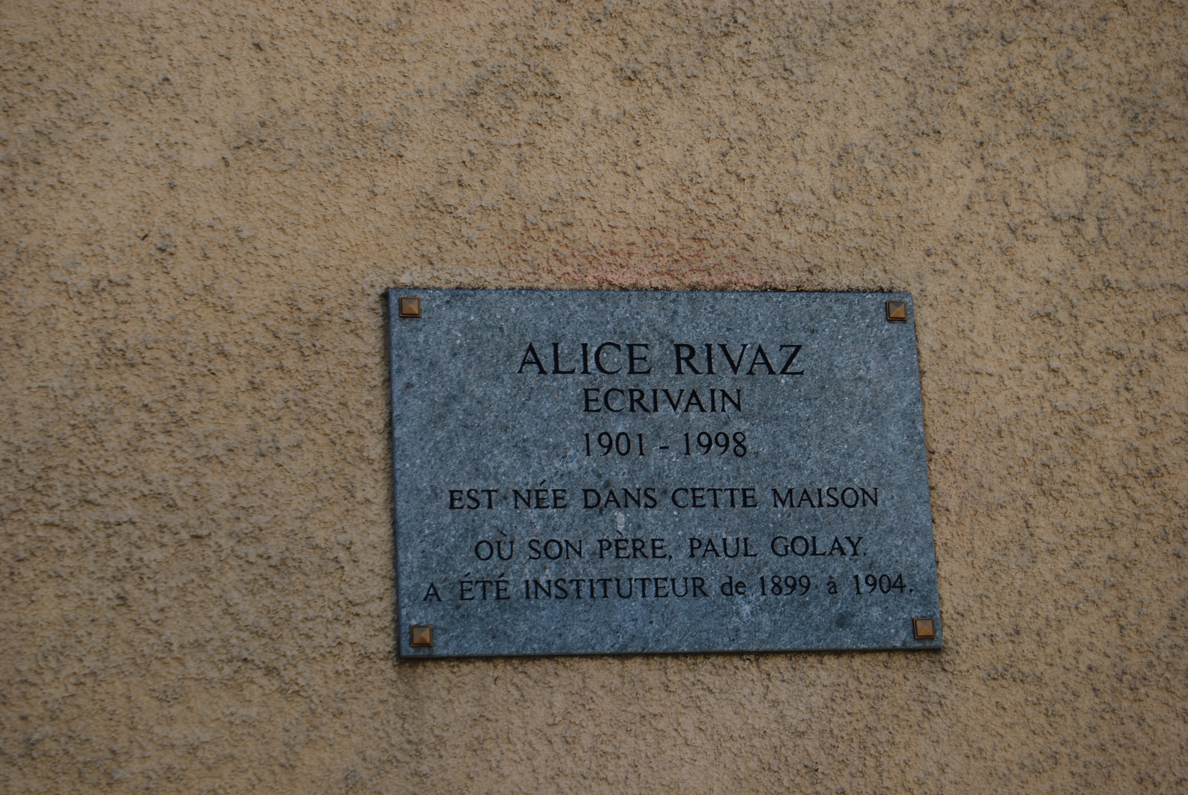 Rovray, canton of Vaud, SwitzerlandEsperanto: Rovray, Kantono Vaŭdo, Svislando